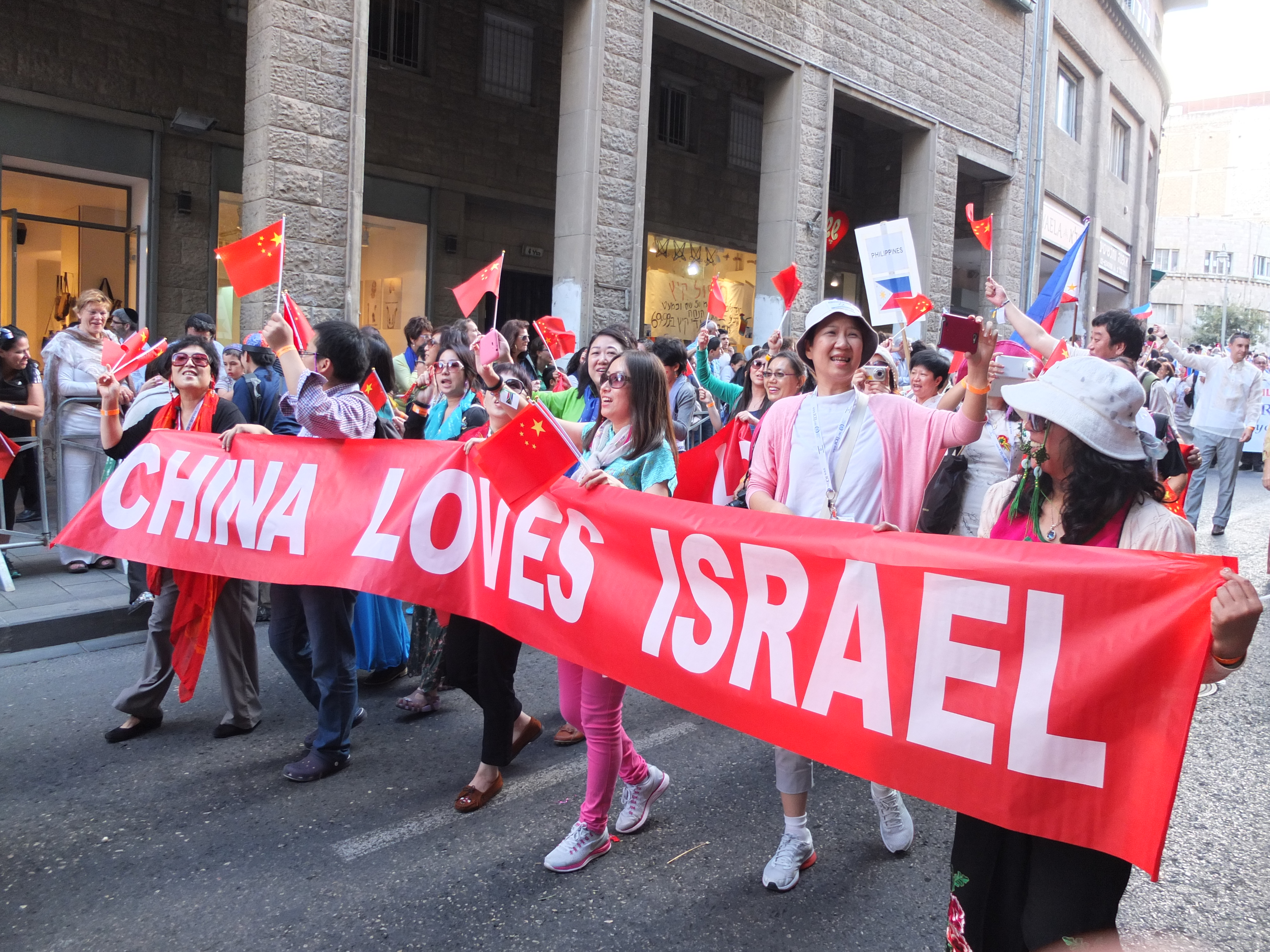 Chinese delegation, Jerusalem March, September 2013